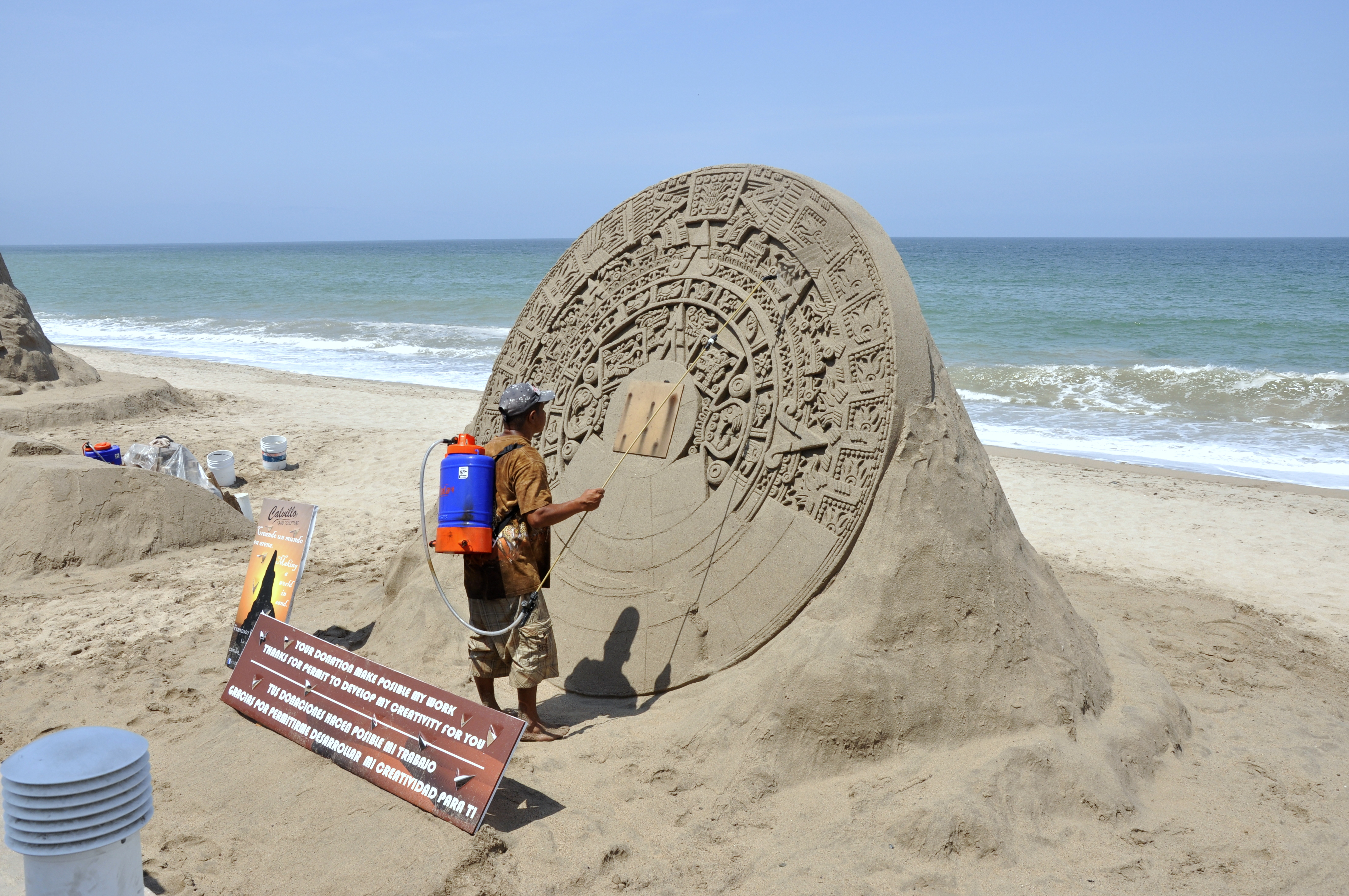 Sand sculpture of the Aztec calendar on the beach of Puerto Vallarta, carefully being preserved with a water sprayer.